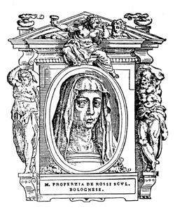 Illustratio from "Le Vite" by Giorgio Vasari, edition of 1568. For the artist portrayed see filename